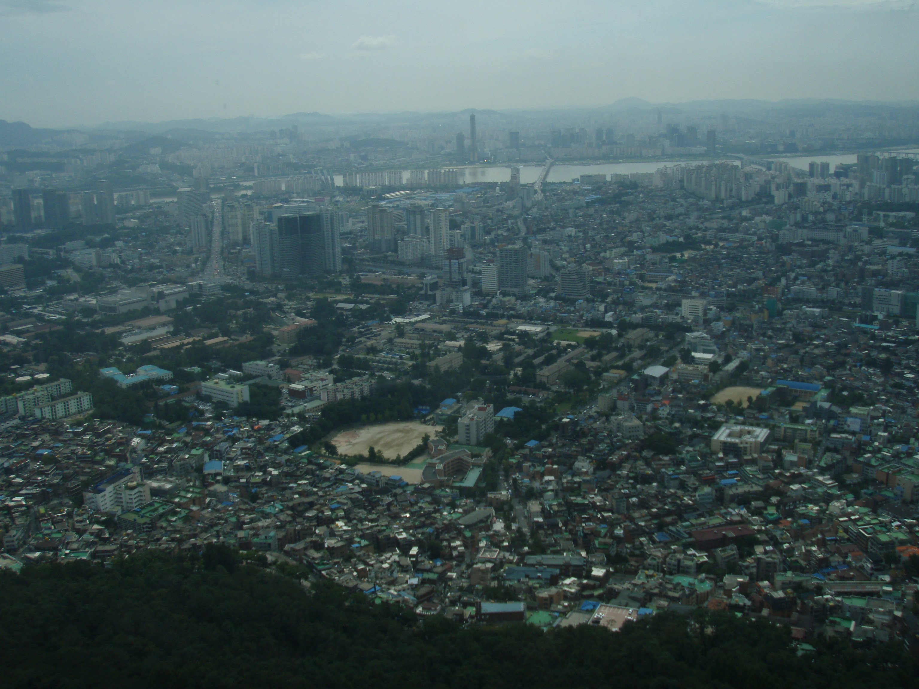 Seoul as seen from N Seoul Tower, looking south. Picture taken in August 6, 2007.